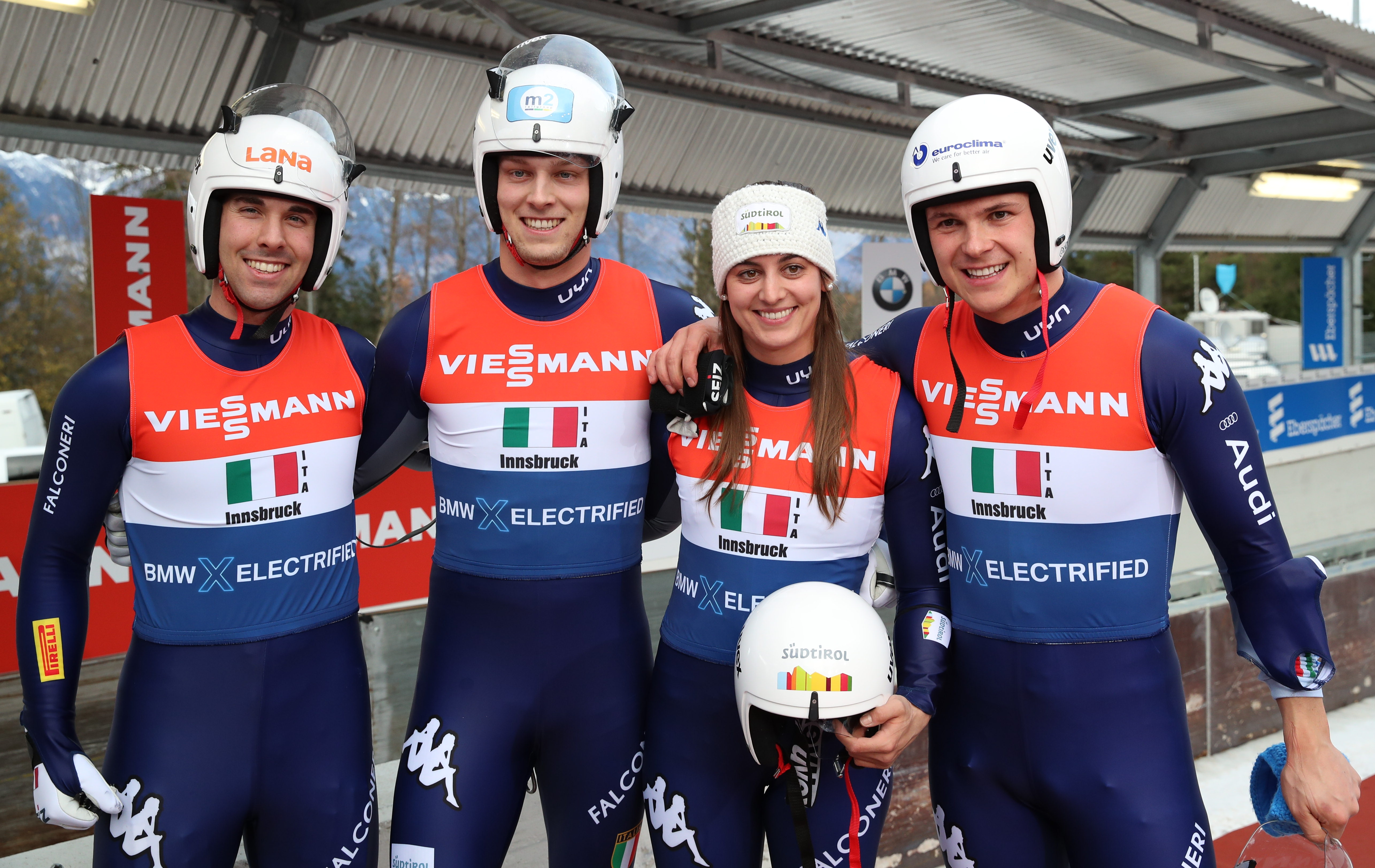 Team Relay World Cup race at the 2019/20 Luge World Cup in Innsbruck-Igls